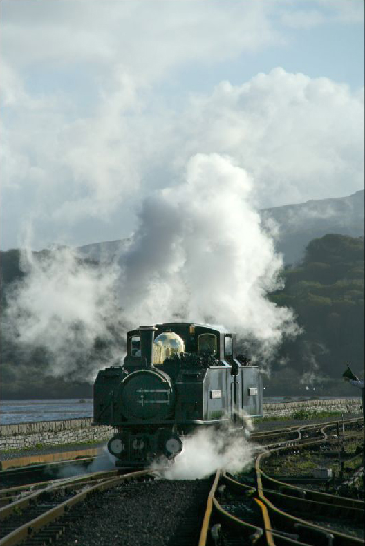 Earl Of Merioneth coming onto the train at Portmadog